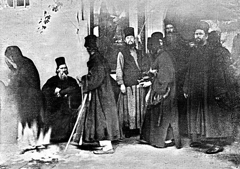 Photo miracle appearance of Our Lady of Mount Athos. 03/08/1903 p. Sv.Panteleymona Monastery. Athos.